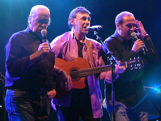 aragonese's most famous singer/songwriters performing together live in Uesca